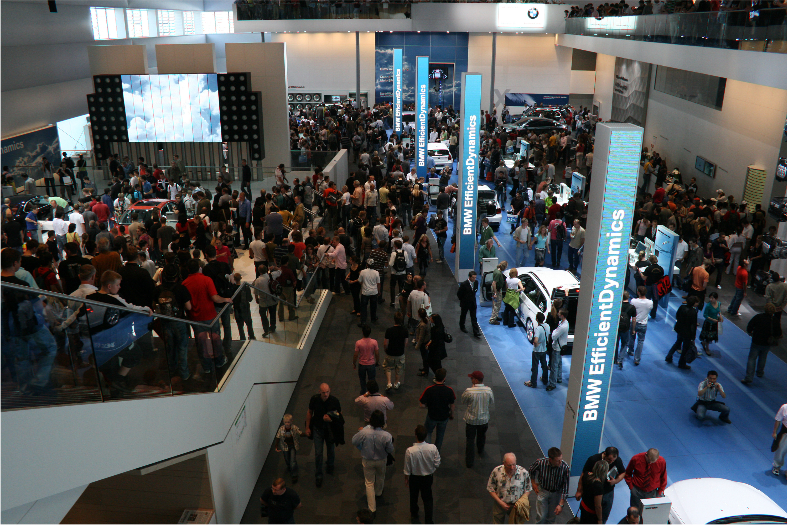 BMW at International Motor Show 2007 in Frankfurt am Main